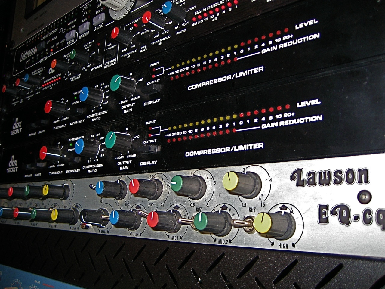 ...you can mix with it too, just doesn't rhyme. ... Empirical Labs Distresser EL8 dbx n/a dbx 160XT Compressor/Limiter (×2) Lawson EQ-CQ Stereo Parametric Equalizer